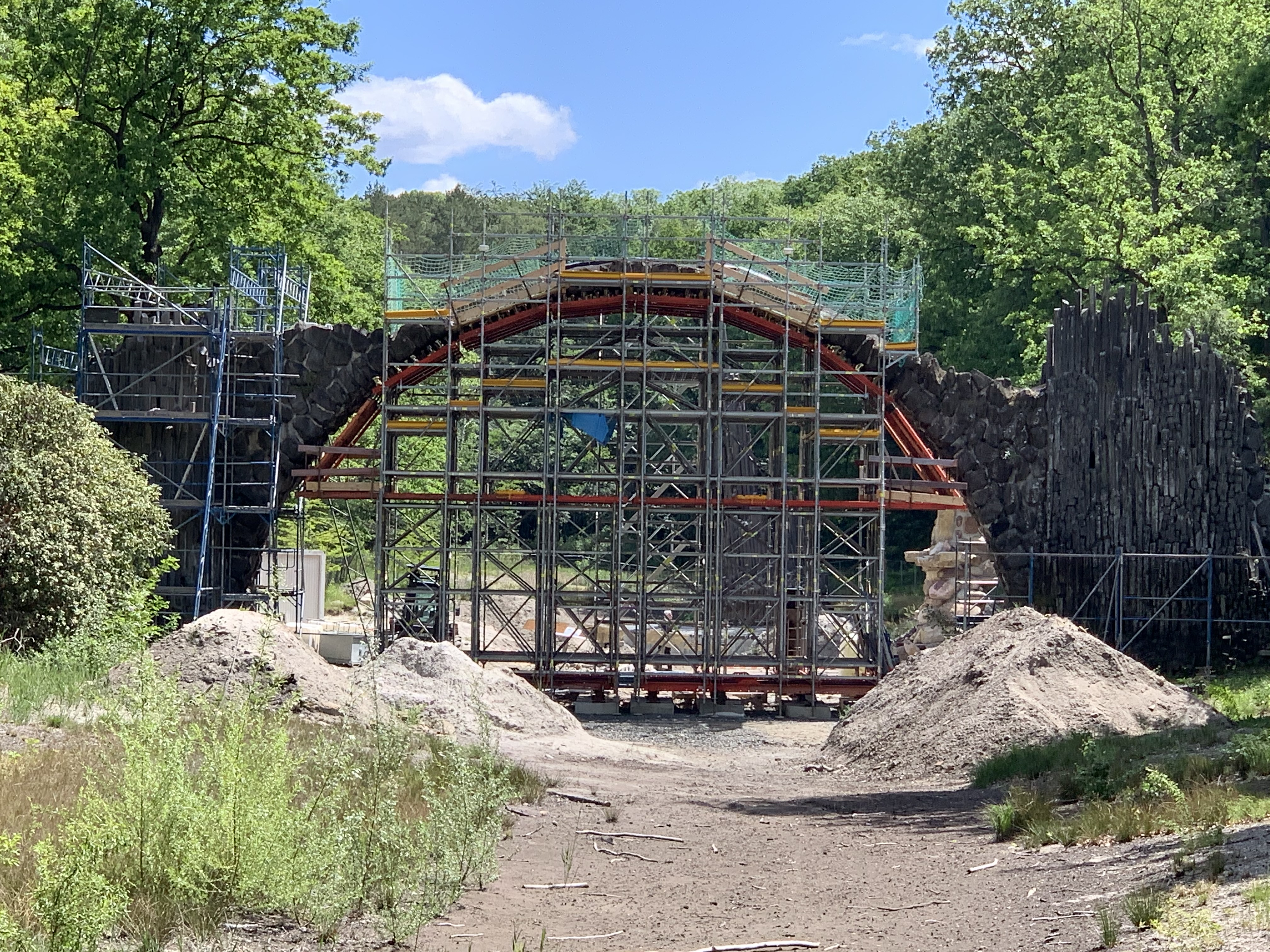 The extensive construction and renovation work in the Rhododendronpark Kromlau have began on 11 August 2017 and are still continuing.